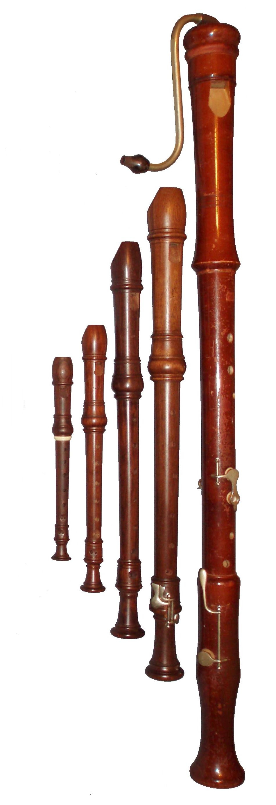 Recorders